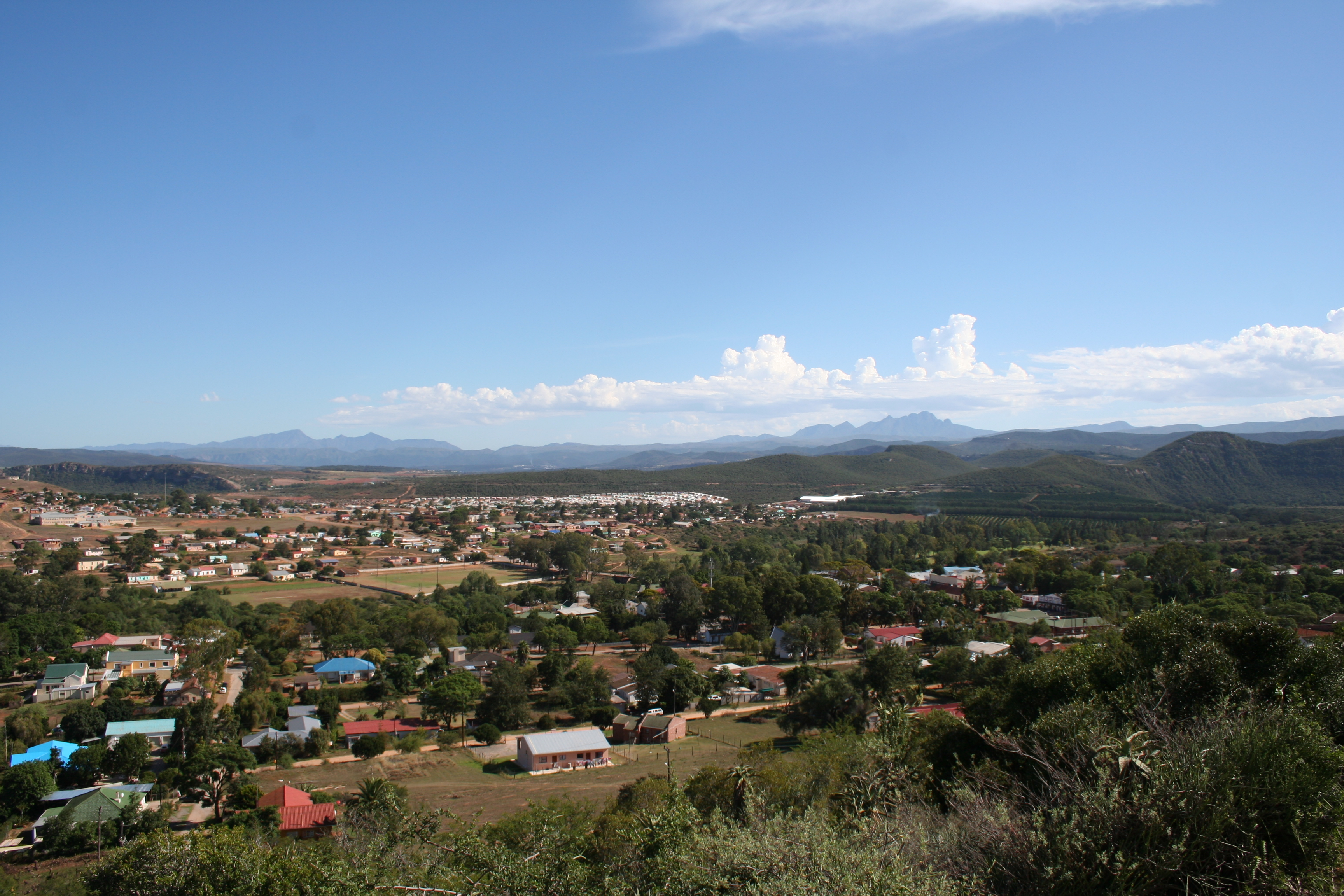 The town of Hankey, Eastern Cape, South Africa. Viewed from the hill at Saartjie Baartman's grave.